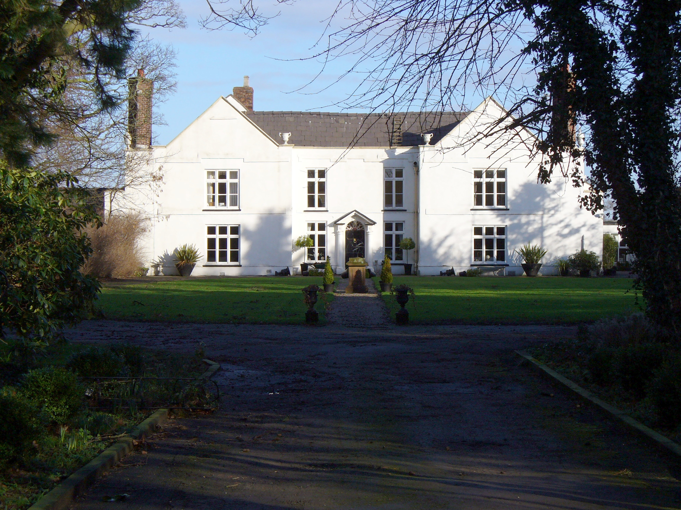 Photograph of Hassall Hall, Cheshire